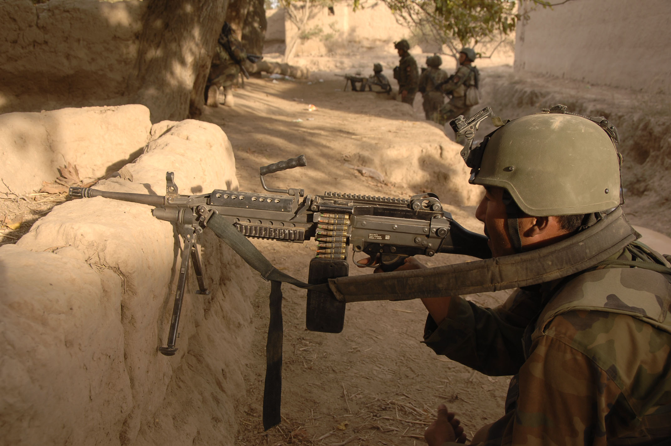 Afghan soldiers holding position during a joint operation in Kunduz Province, Afghanistan conducted by USSOF, Afghan Nationa Army and German PRT infantry forces.